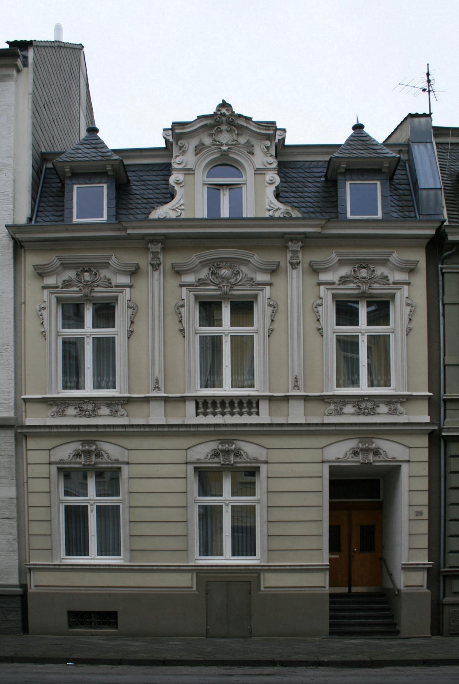 Cultural heritage monument No. St 036 in Mönchengladbach